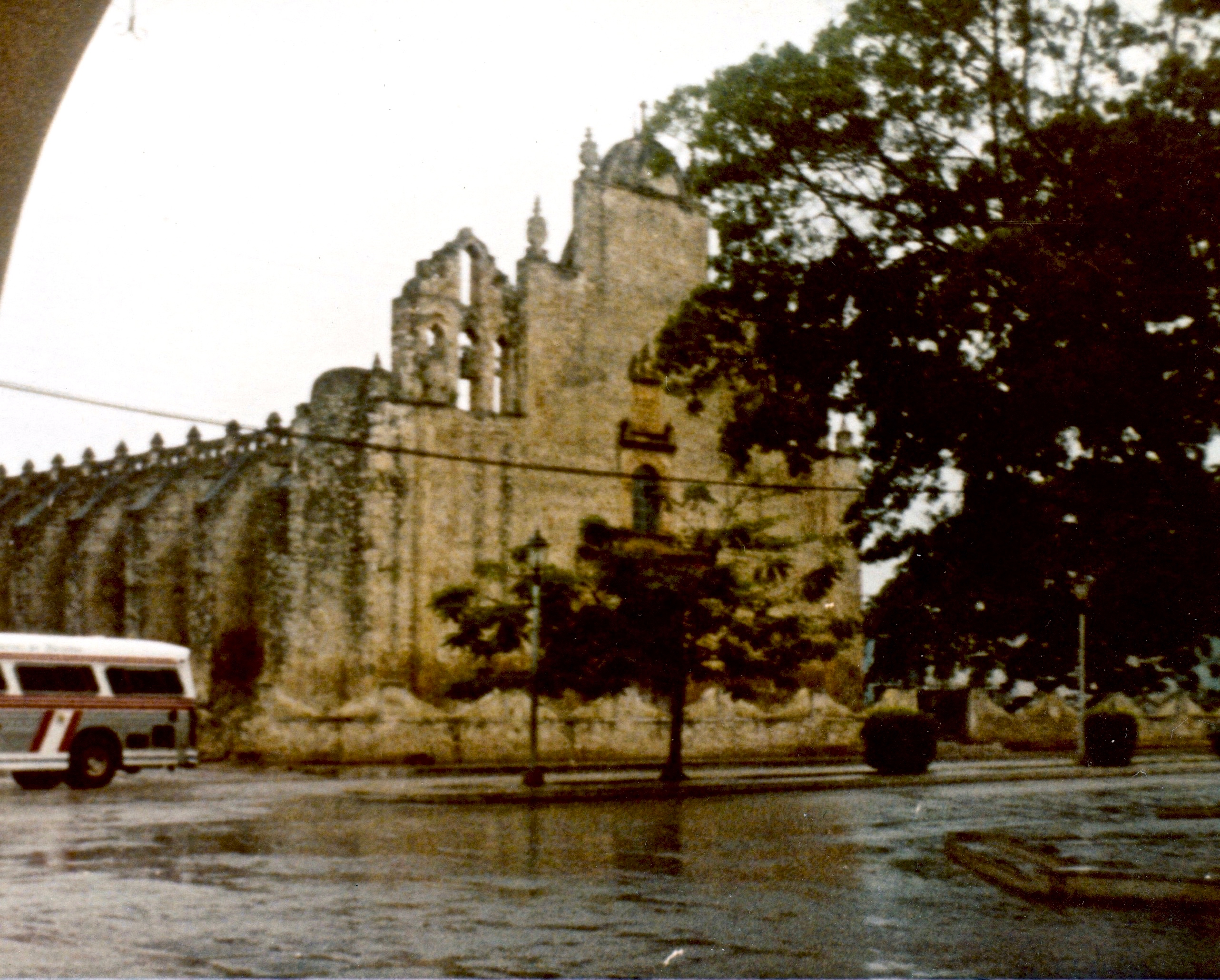 Tekax, Church San Juan Bautista on the main square. Photo by User:Infrogmation, 1981, on a rainy day from under the arcade across Calle 50 & Calle 53 from the Church.